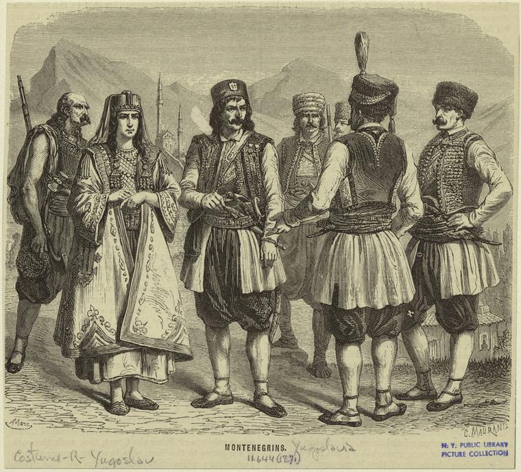 Montenegriners. From All around the world : an illustrated record of voyages, travels and adventures in all parts of the globe. Collins, 1869-1871) Ainsworth, William Francis (1807-1896), Editor.